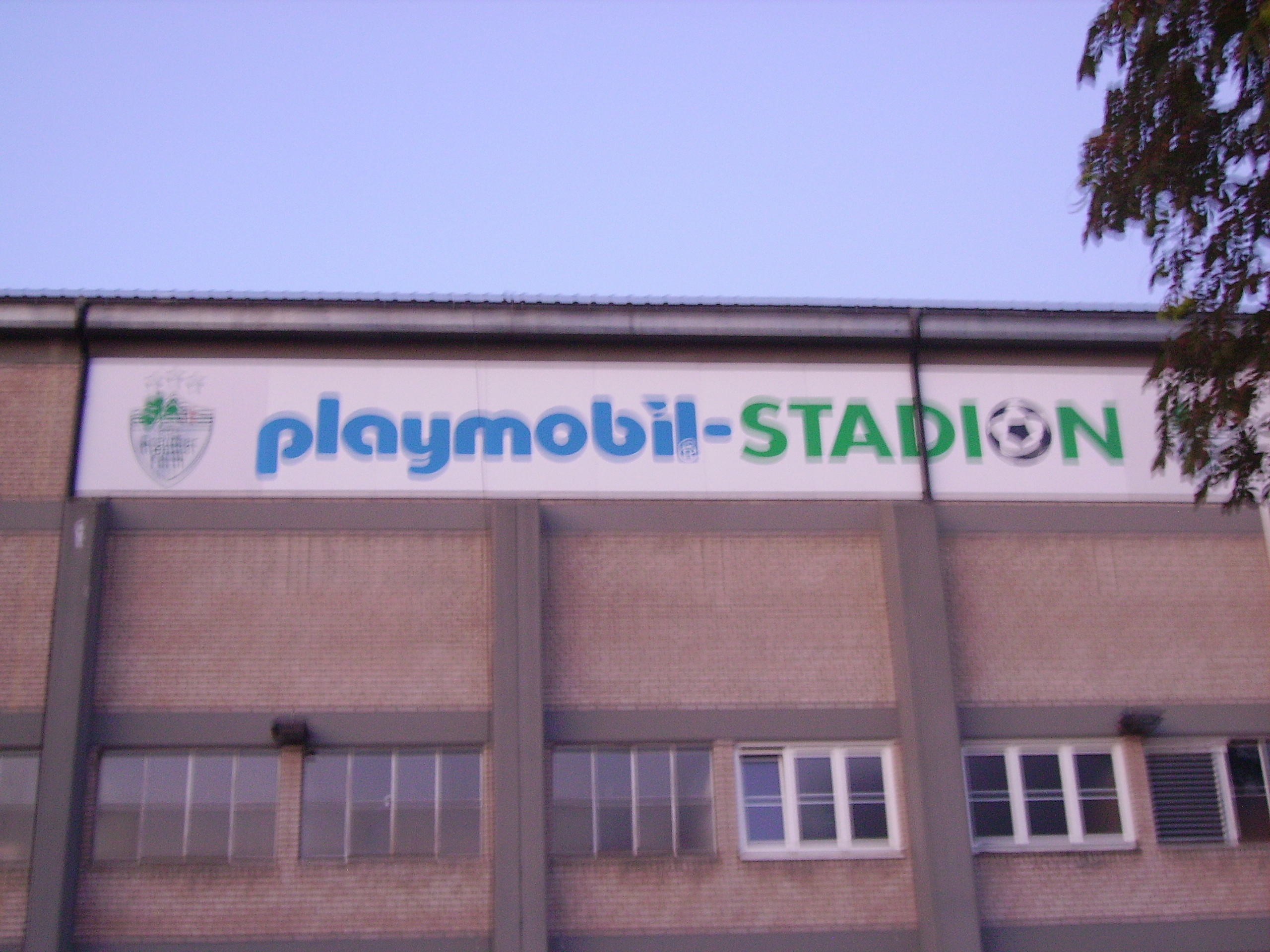 Picture of the name plate of SpVgg Greuther Fürth's Playmobil Stadion.